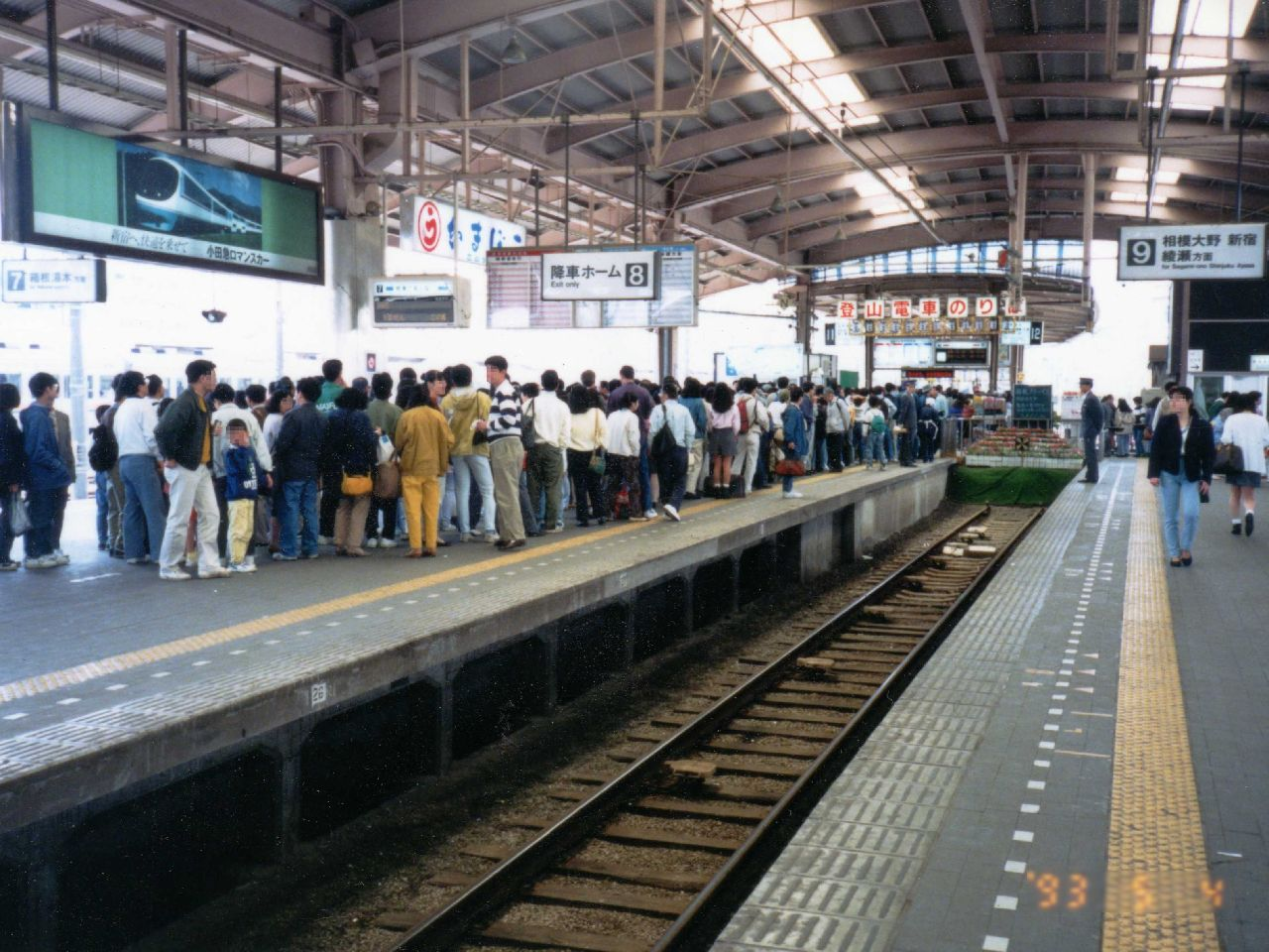 Hakone Tozan Railway and Odakyu Electric Railway, Odawara Station platform. At the time of holidays in May 1993, I made a long line for many tourists to ride the mountain railway.